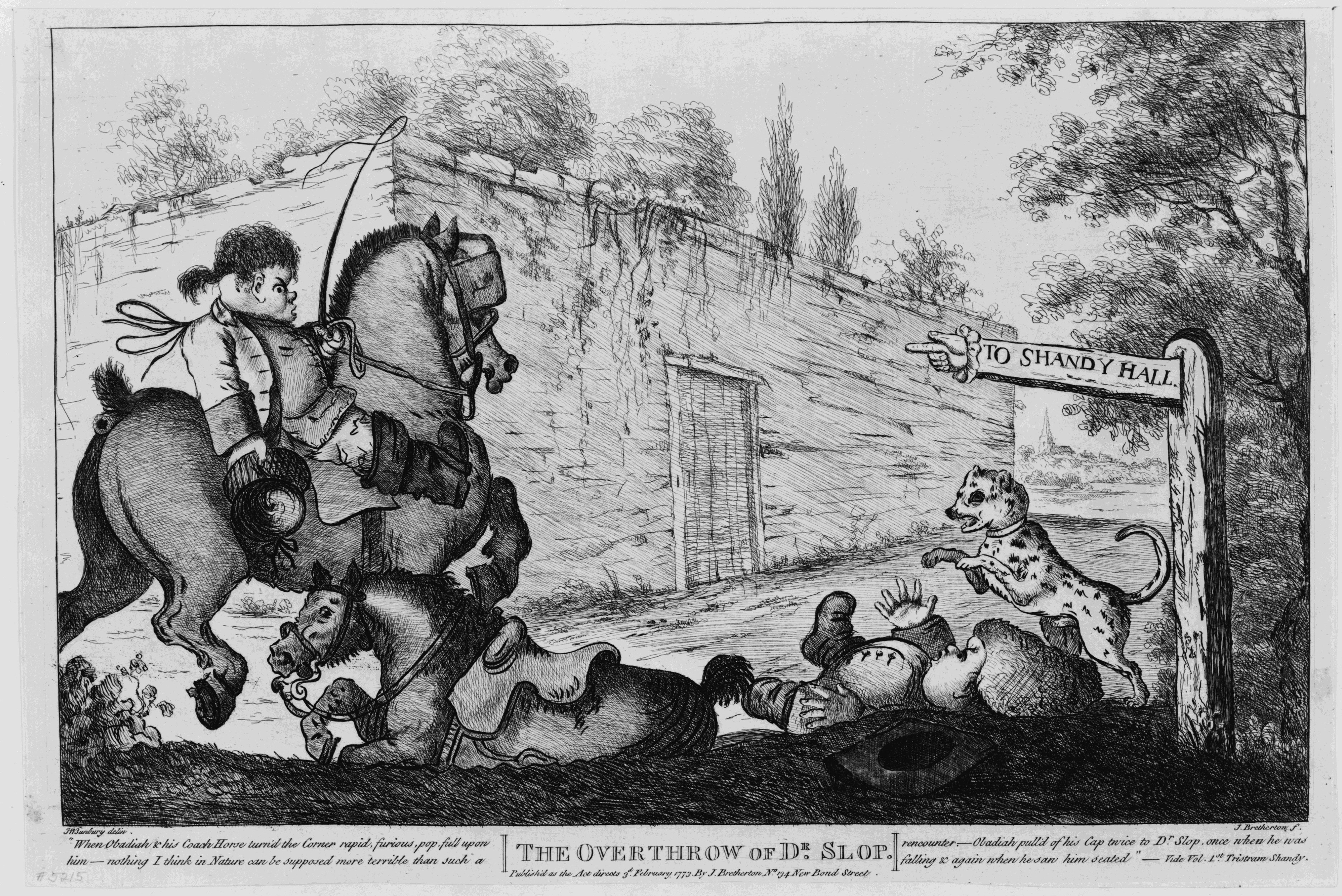 One of a series of illustrations to Laurence Sterne's The life and opinions of Tristram Shandy, Gentleman showing Obadiah mounted on coach-horse at full gallop attempting to pull up his horse. On the ground is Dr. Slop's pony. Behind the pony is Dr. Slop lying on his back; a spotted dog prances over him. The doctor lies under a sign-post terminating in a hand pointing To Shandy Hall. Creator: Henry William Bunbury, 1750-1811, engraver. Publish'd as the act directs 3d February 1773 by J. Bretherton, London. Repository: British cartoon collection (Library of Congress).